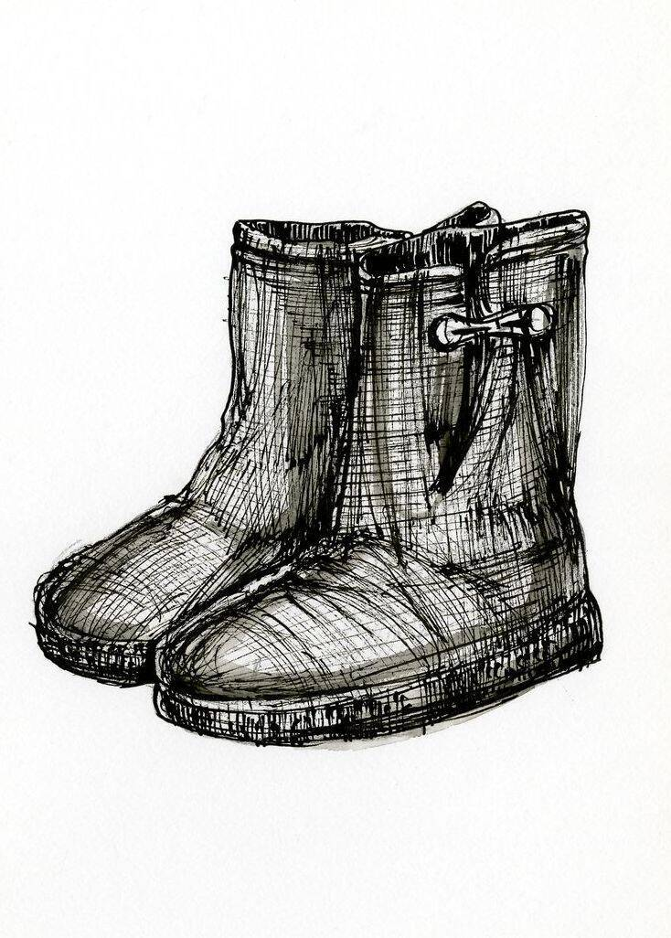 The description of the concept in this drawing is: Overshoes of rubber or other waterproof fabric, especially those that extend above the ankle and that often have buckles or other fasteners. Use "rubbers" for overshoes without buckles or fasteners that are cut below the ankle. (AAT)